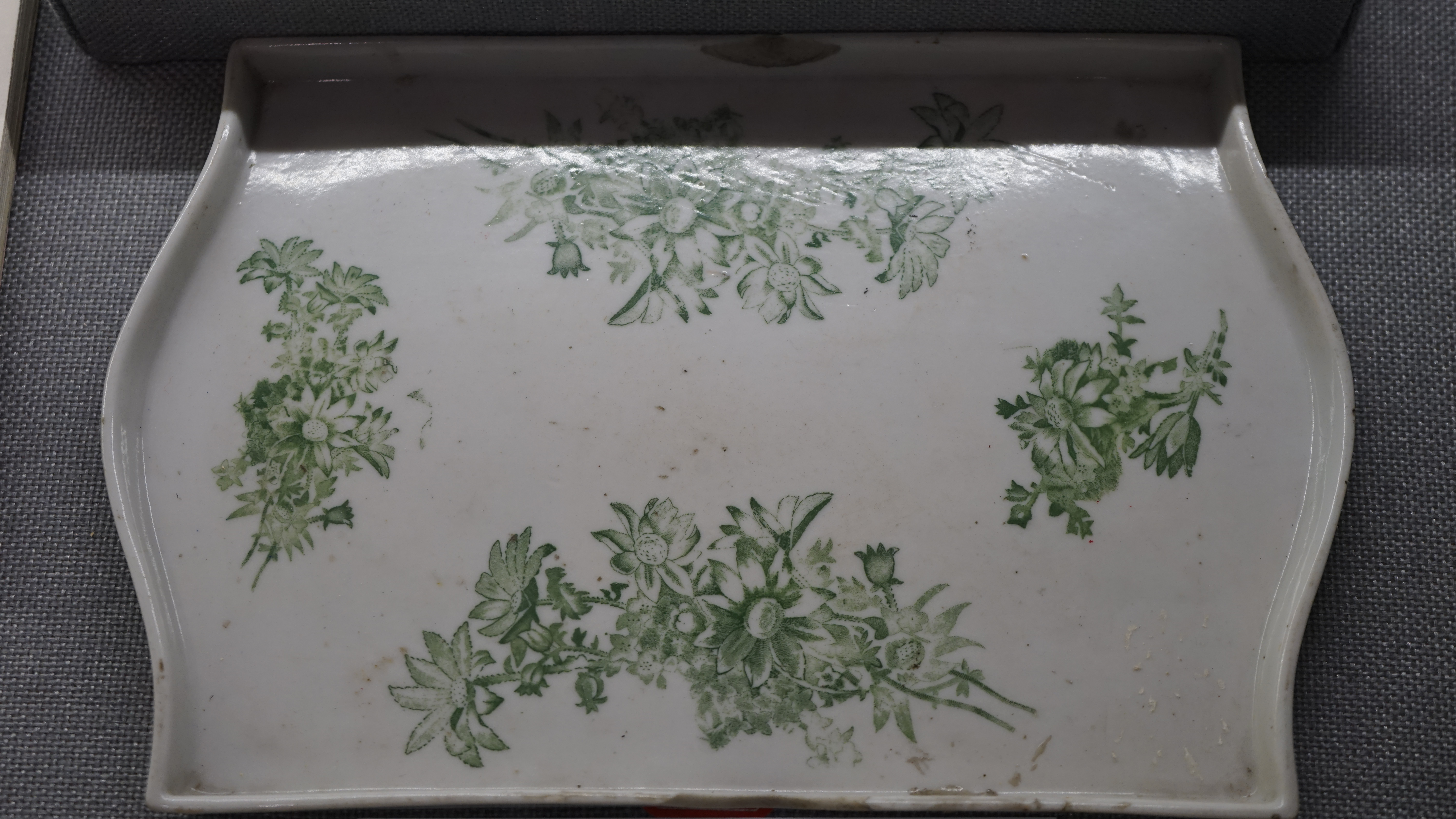 Porelain tea tray used by Zhang Zhenwu. Donated by Zhang Chao.